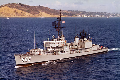 The U.S. Navy destroyer USS Orleck (DD-886) passing Point Loma, California (USA), in 1964.